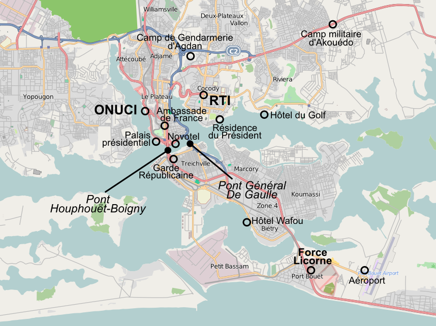 Map of the important places during the Battle of Abidjan.